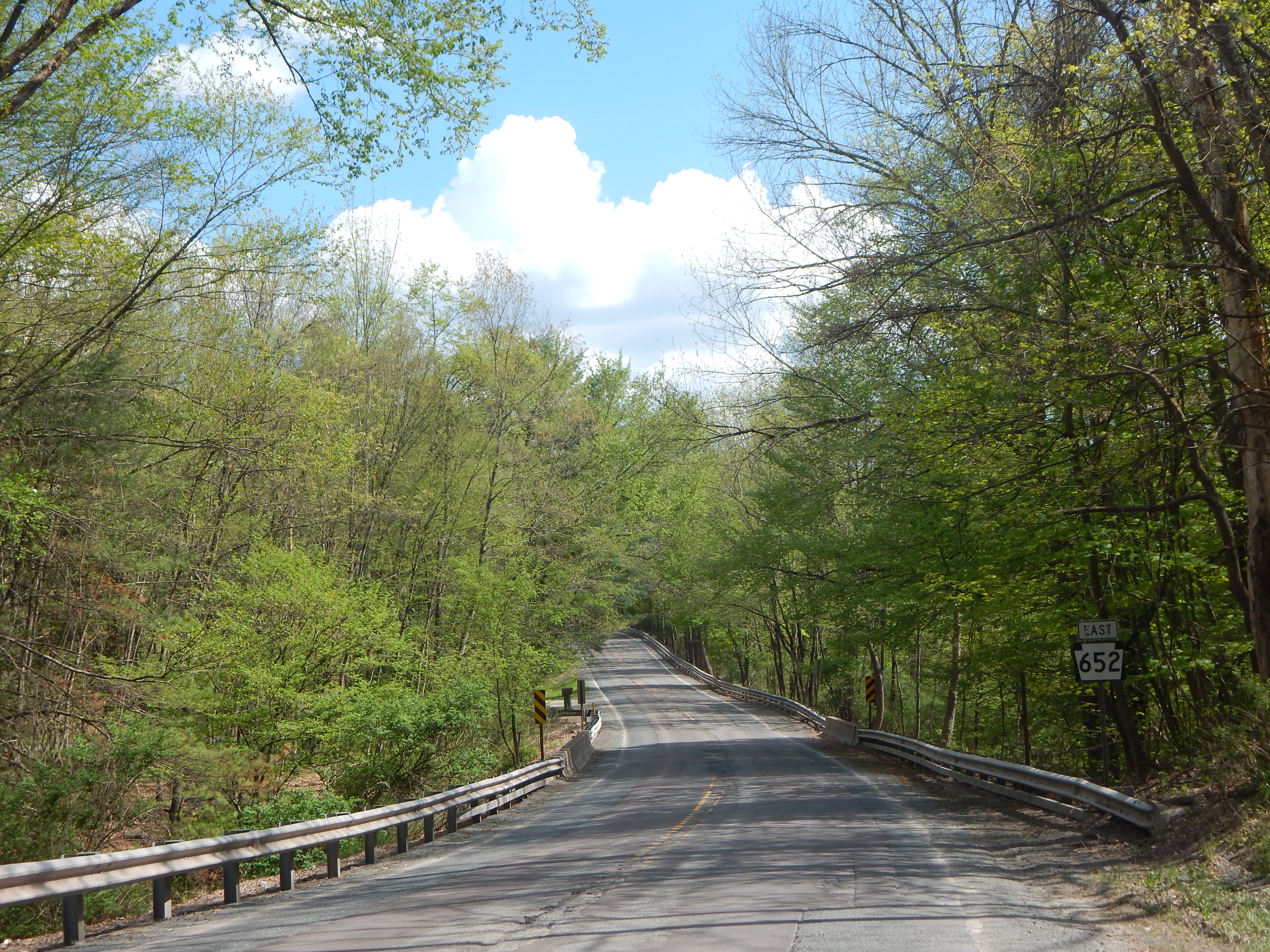 Route 652 in Damascus Township, Pennsylvania in May 2015.